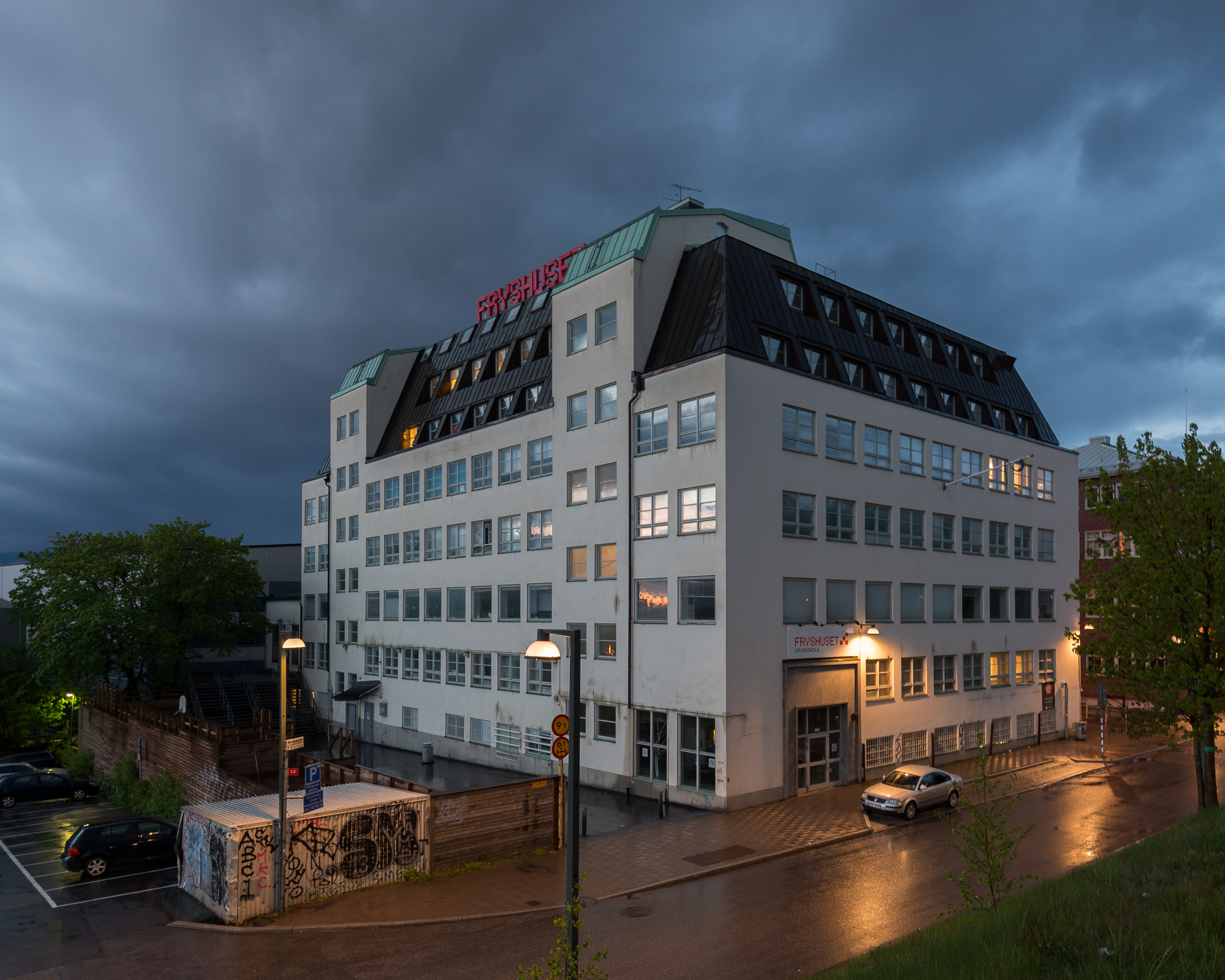 Fryshuset, Södra Hammarbyhamnen, Stockholm. Fryshuset is an activity center for young people offering social projects and educational programs.